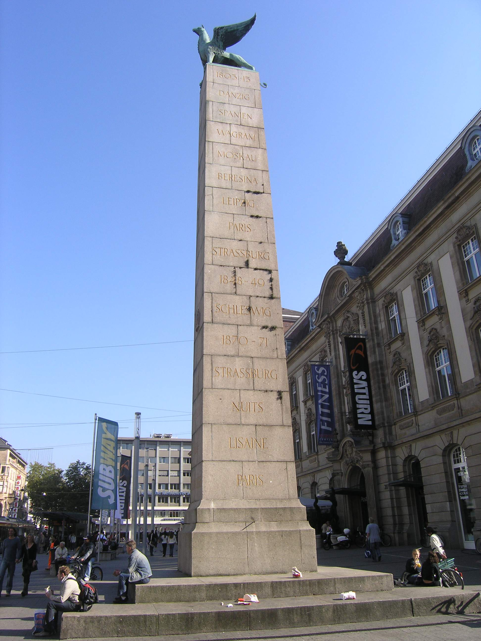 Memorial for the 1st Grenadiers, Karlsruhe